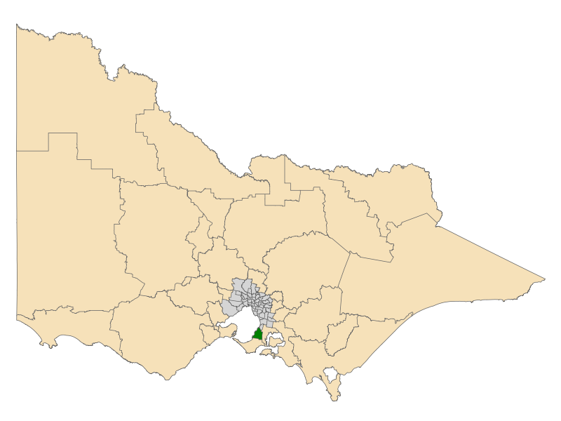 Location of the Electoral District of Mornington (dark green) in the state of Victoria, Australia. These boundaries were used for the Victorian state election on 29 November 2014.